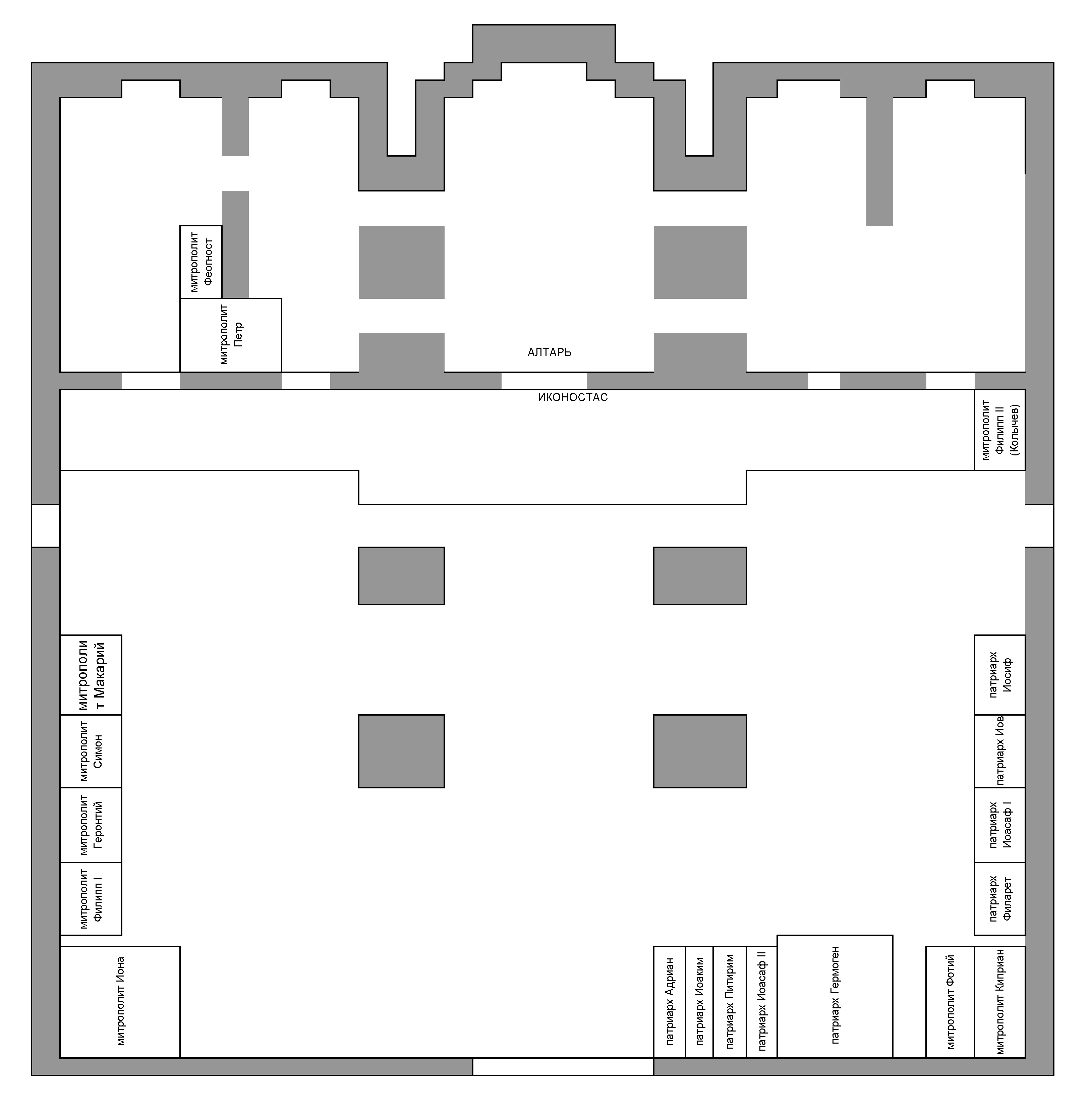 Graves_in_the_Cathedral_of_the_Assumption_(Moscow)